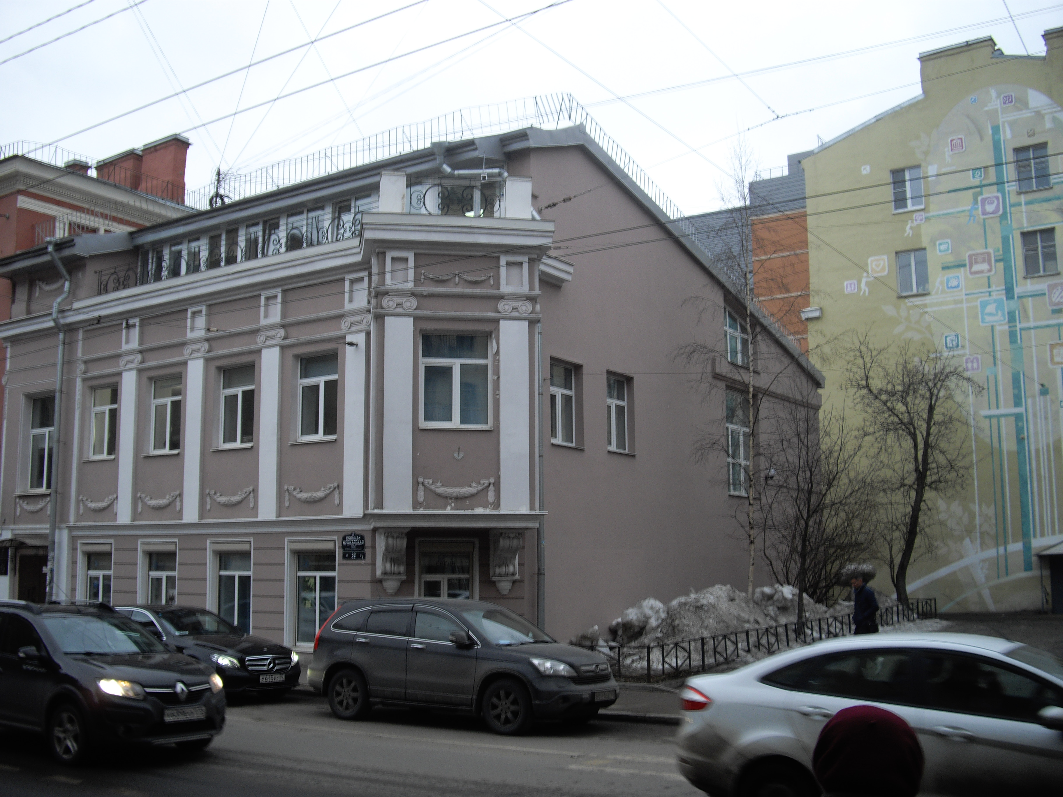 30, Bolshaya Pushkarskaya street, corner of Gatchinskaya street. The frontal part of the building: mansion of Pavel P. Shorokhov, architect Nazarov, 1898. The larger part of the building: residential house, 1911, renovated in 2016.